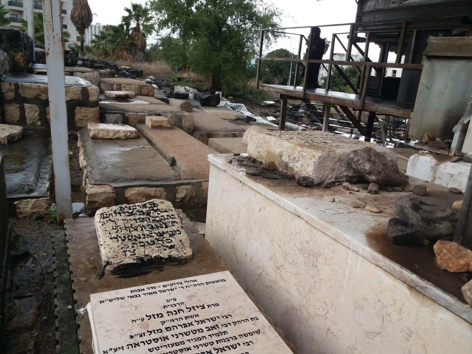 A gravestone on the grave of Cezia-Channa Mazal